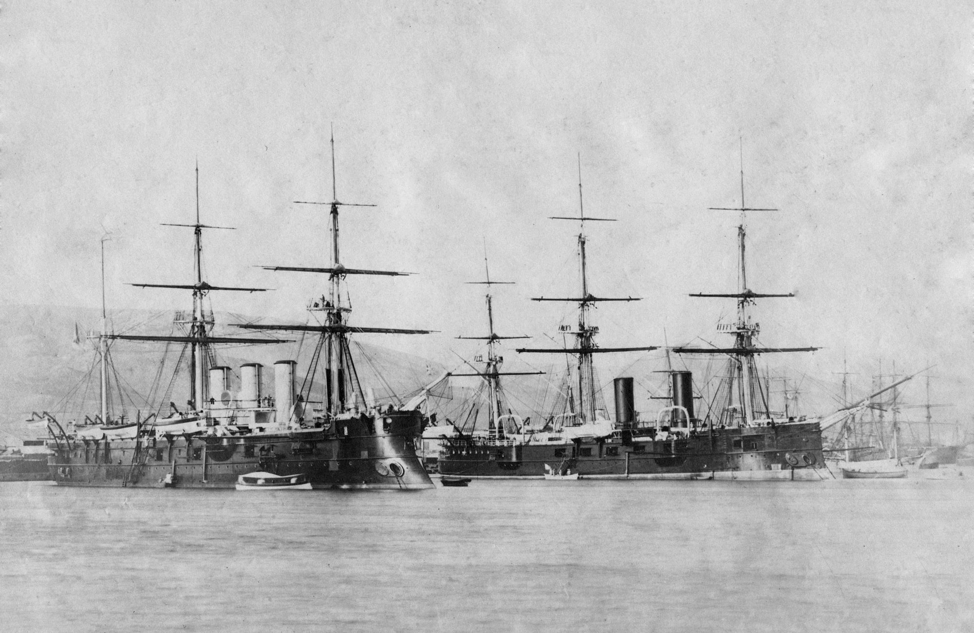 The Imperial Russian armoured cruisers «Pamyat' Azova» and «Vladimir Monomakh» in Piraeus, between late 1880s and early 1890s.